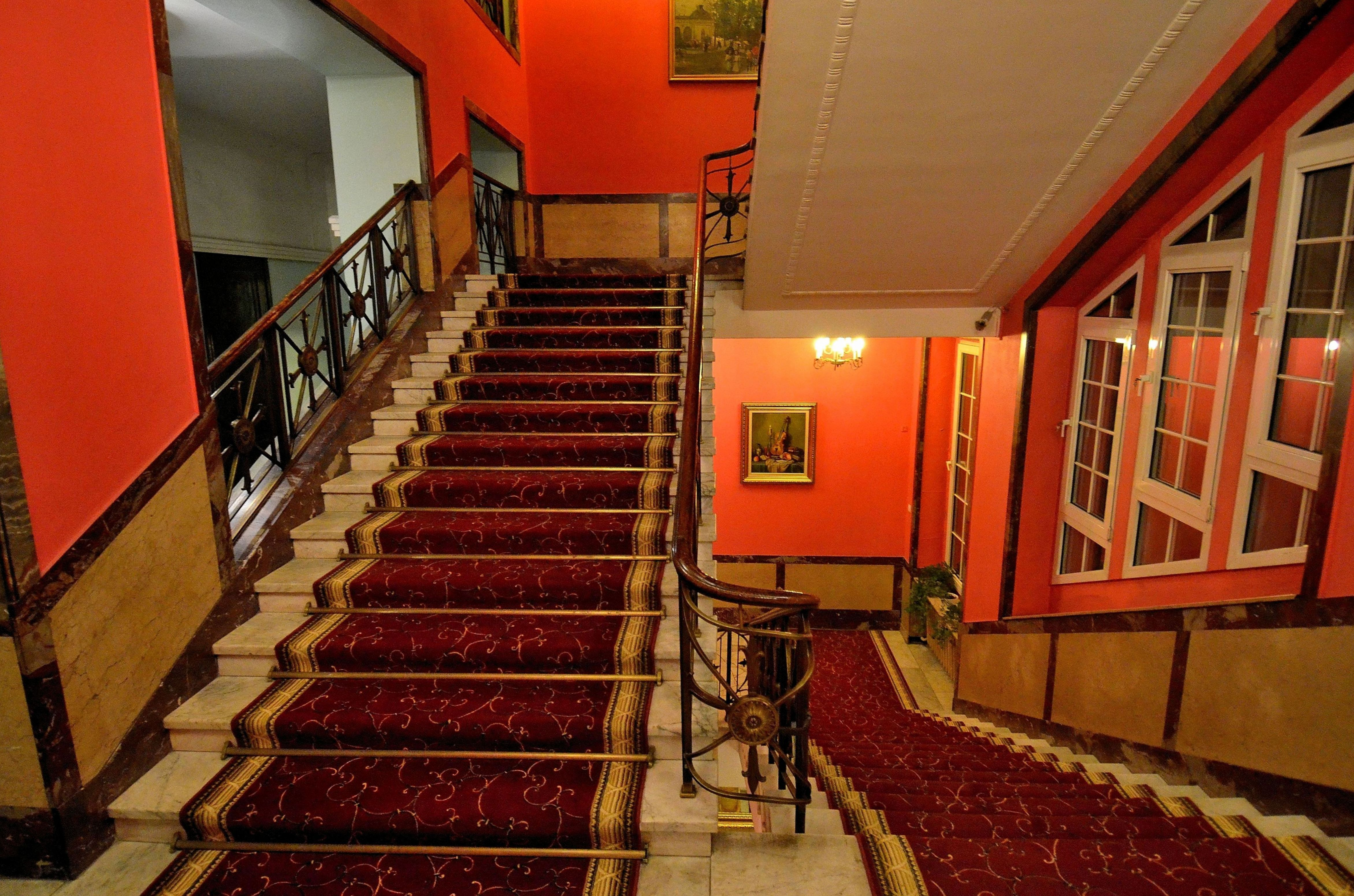 Staircase at the Grand Hotel in Łódź